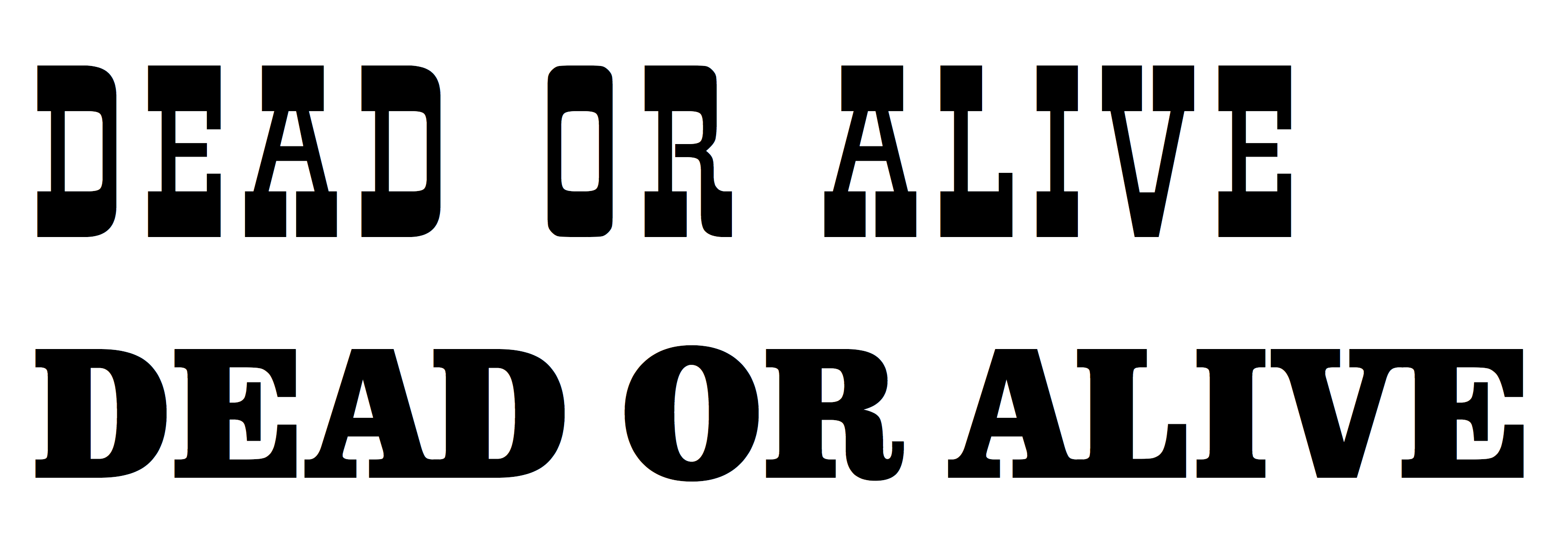 French Clarendon type compared to condensed but normal-style Clarendon type